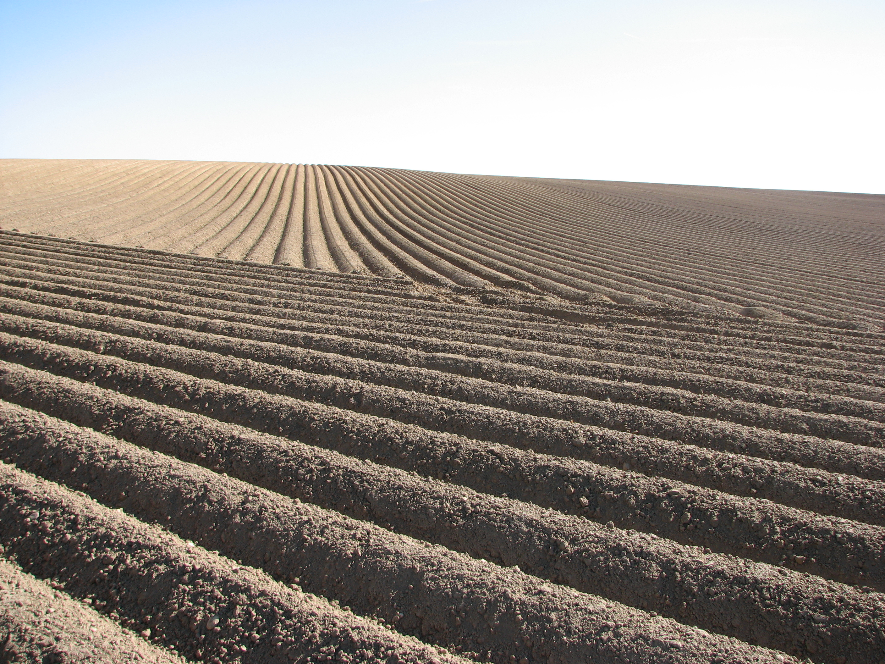 Description: A potato field Source: made by myself Made by: topfklao